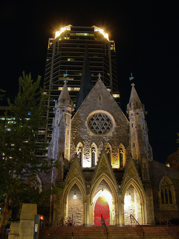 Christ Church Cathedral, Montreal, Quebec, Canada.